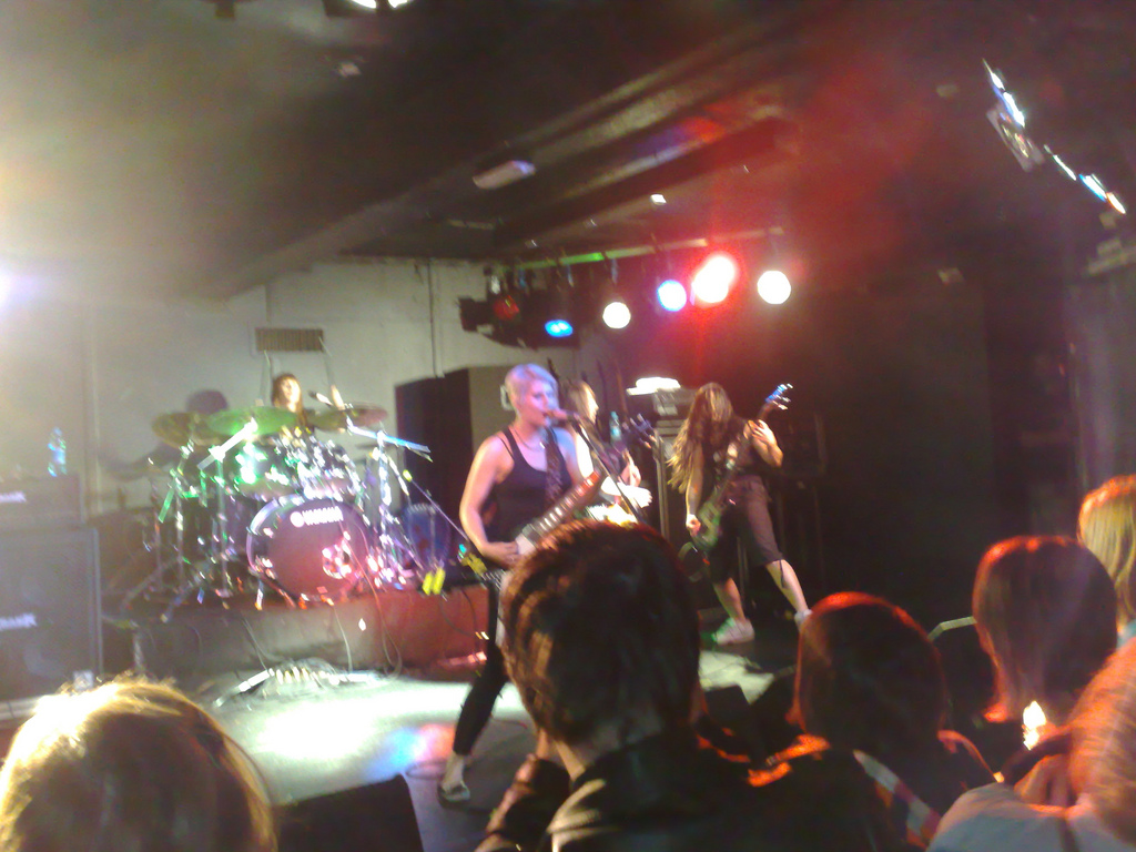 Kittie at the Cathouse in Glasgow